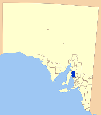 Map of South Australia showing the location of the Wakefield Local Government Area. A modification of GDFL map by Astrokey44; found here: File:SA_LGA_blank.png